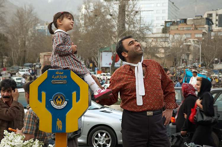 Father with daughter in Tajrish Square in Tehran. The child is sitting on a charity collection box